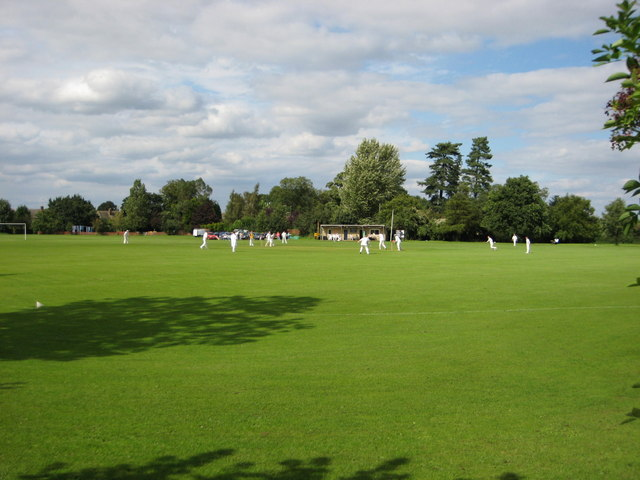 Cricket match at Wardington, Oxfordshire